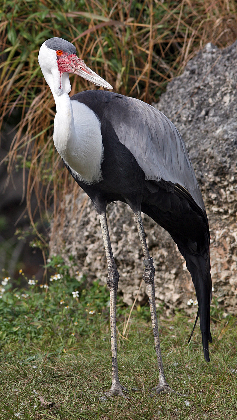 Wattled Crane (Bugeranus carunculatus) shot in captivity.